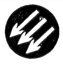 PD-Polish